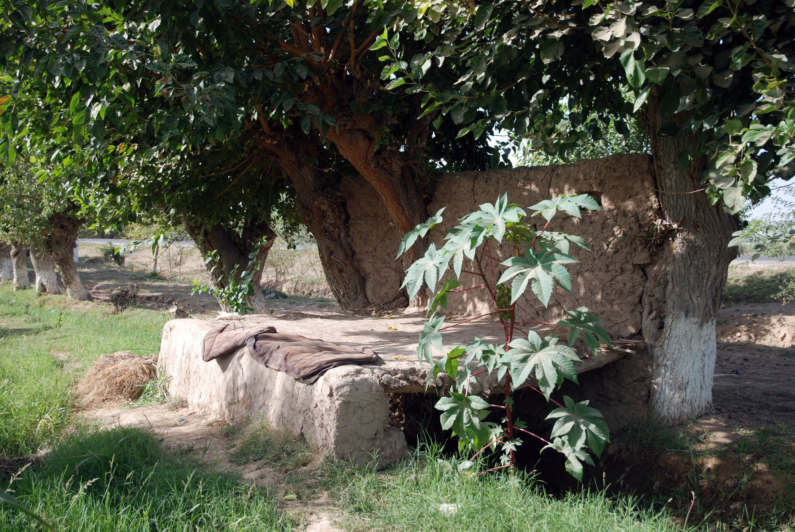 Tapchan near Khodja Mashad, Shaartuz, Tajikistan